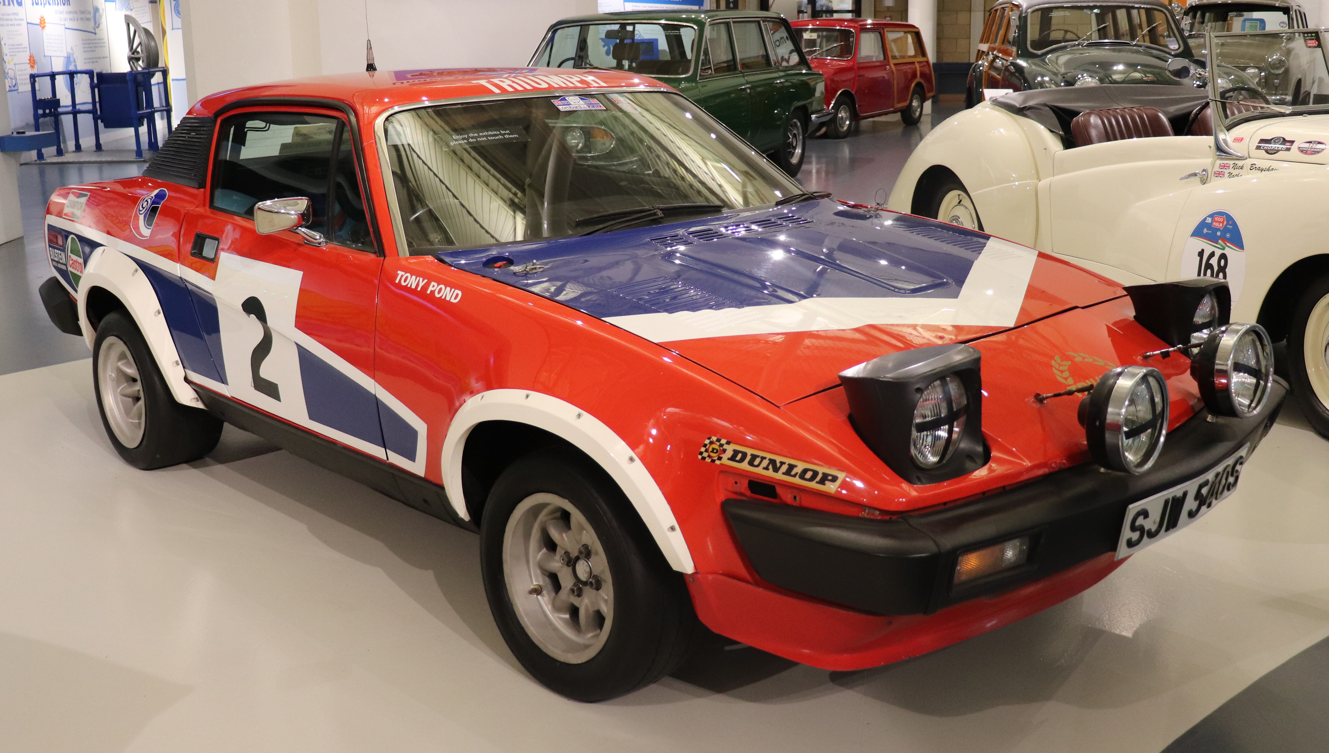 1978 Triumph TR7 V8 Rally Car 3.5 Front Taken at the British Motor Museum, Gaydon